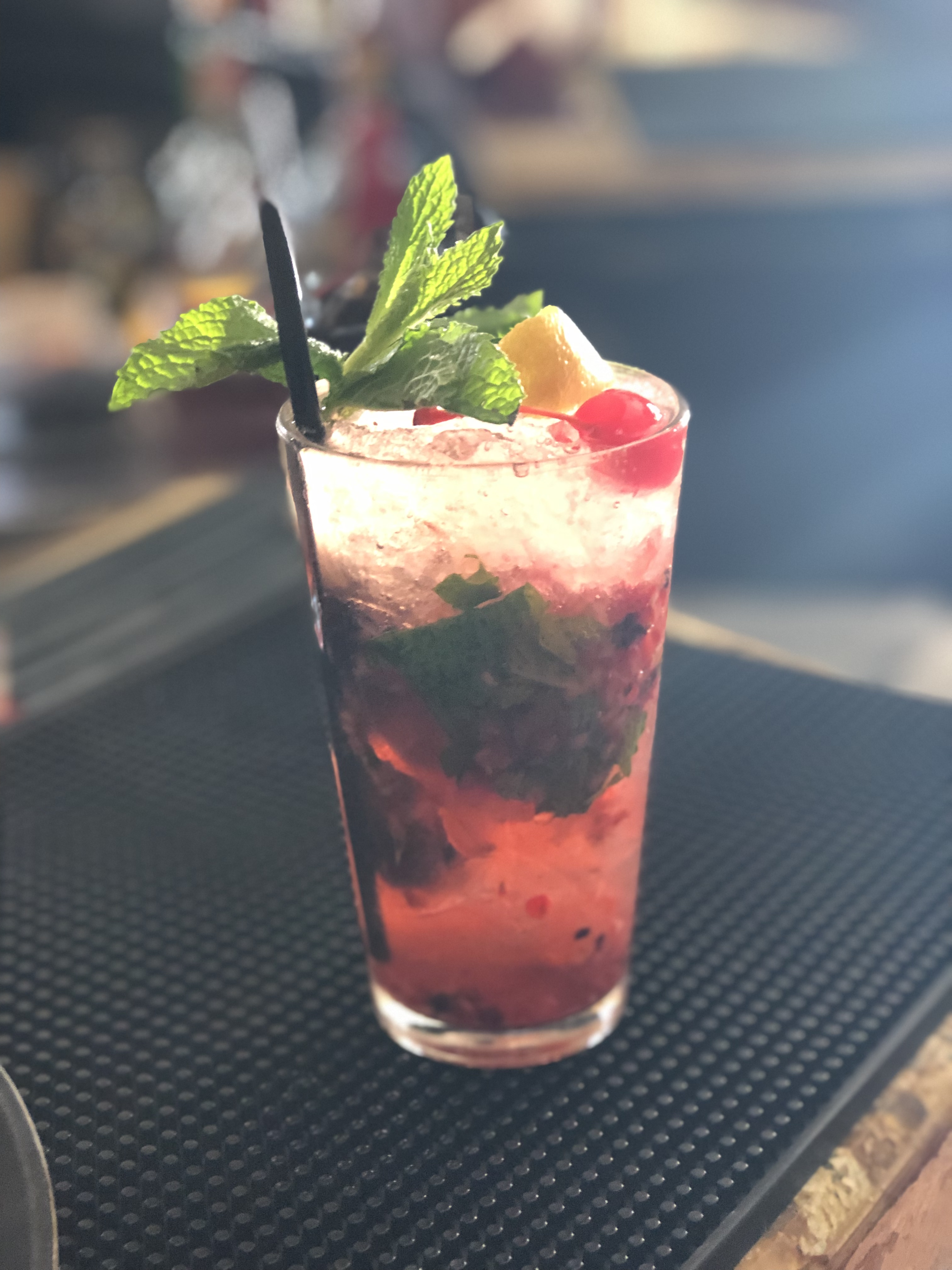 The Jingle Bell Julep (a Mint Julep made with raspberry, strawberry infusion/maceration) at the Round Robin Bar in Washington, DC.